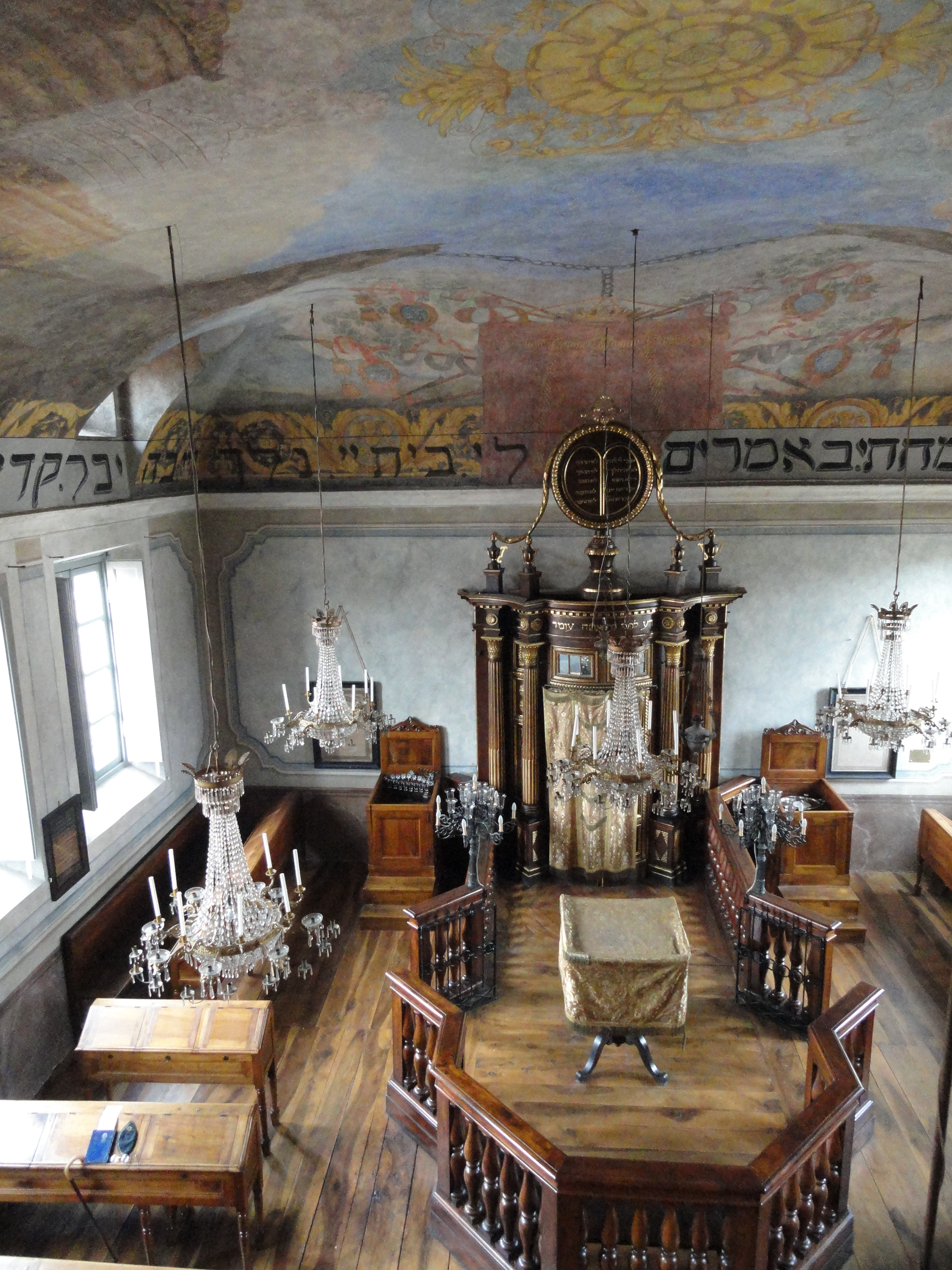 Synagogue of saluzzo (Italy). General view from the women's gallery